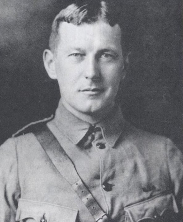 Portrait of John McCrae, author of "In Flanders Fields"